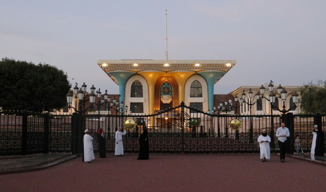 Muscat Palace Oman Sultan